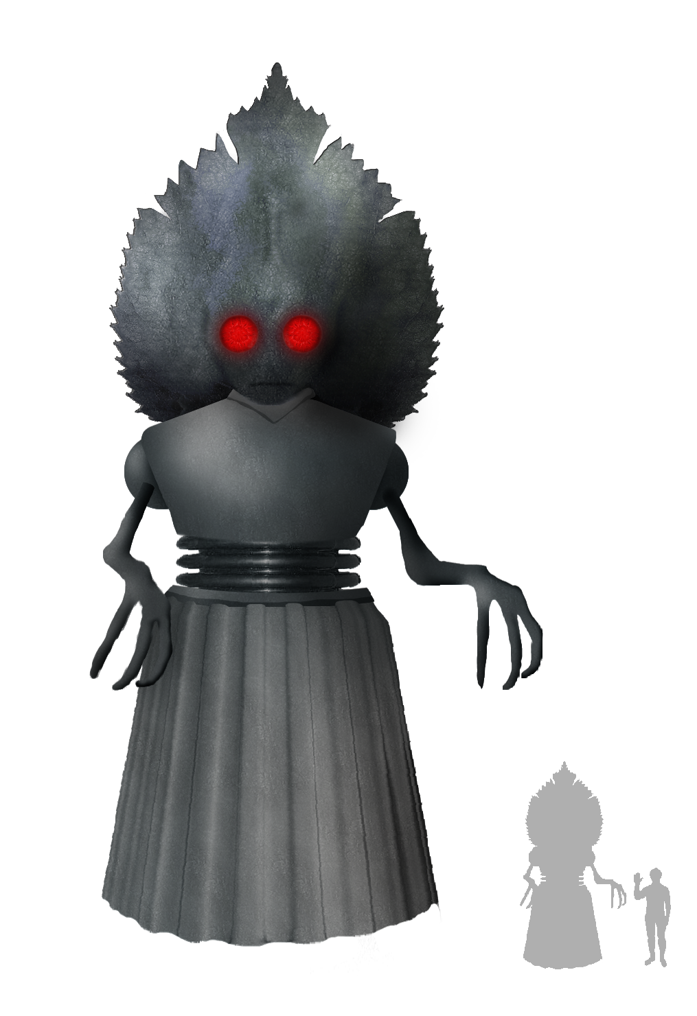 Artist's impression of the Flatwoods monster.